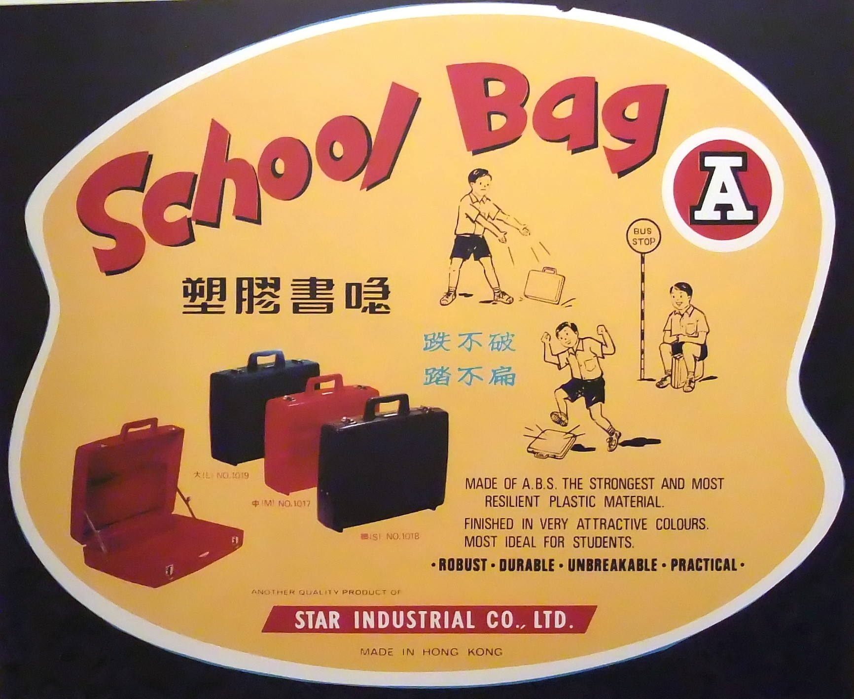 Product information sheet on a Red A ABS plastic school bag. An exhibit of the Hong Kong Heritage Museum.